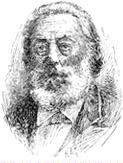 Portrait of Senior Sachs, from the 1906 Jewish Encyclopedia.